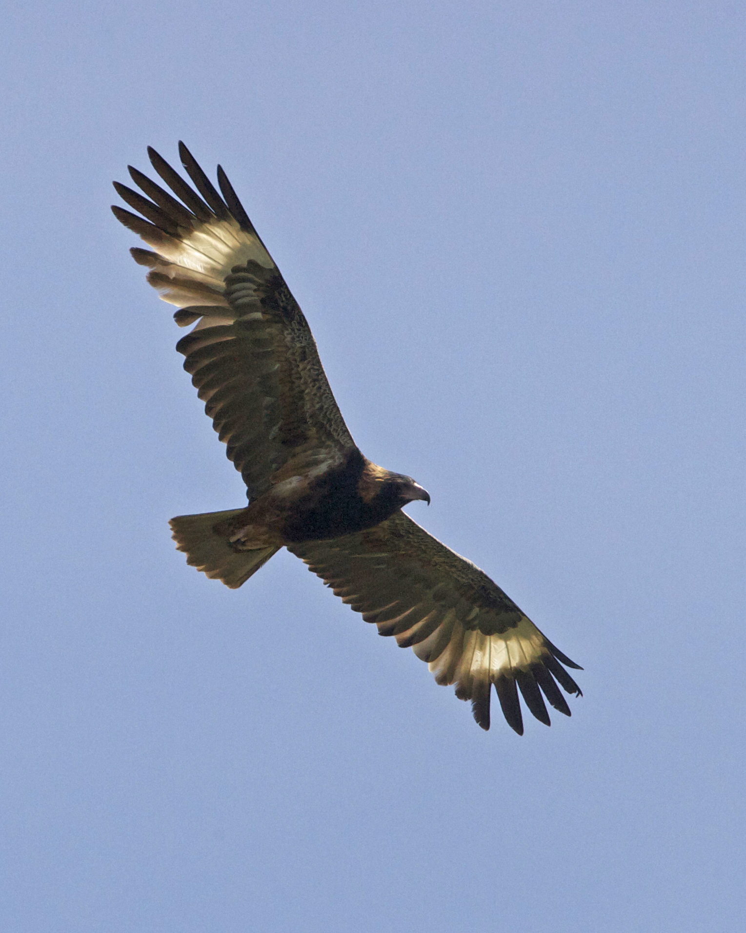 Black-breasted Buzzard / Black-breasted Kite Hamirostra melanosternon 8th. August 2010 Mary River, near Darwin, Northern Territory, Australia 690V9400